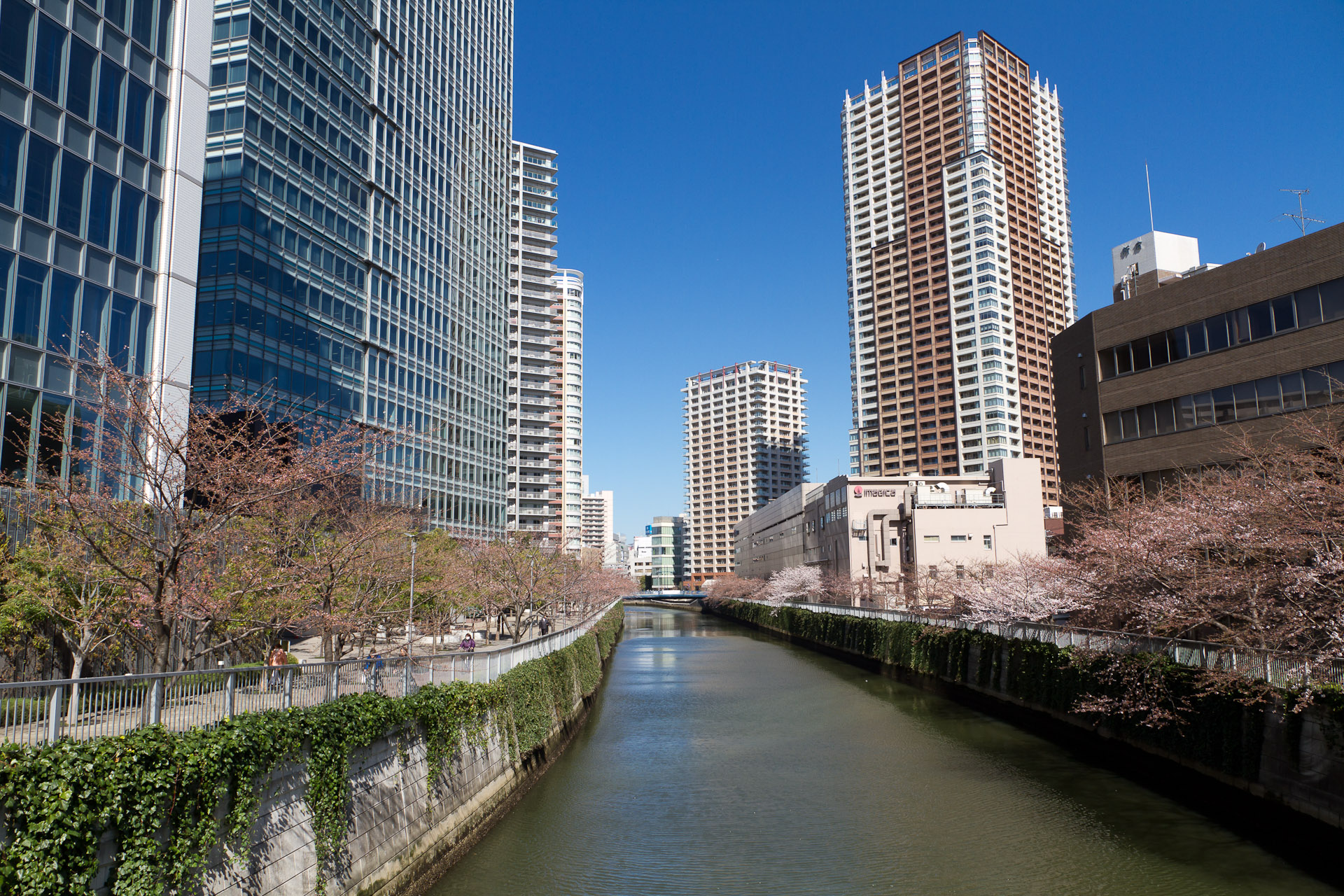 A view upstream of the Meguro River from Onari Bridge in Ōsaki, Minato-ku, Tokyo. 〔Camera location data added below.--トトト (talk) 06:32, 9 September 2011 (UTC)〕